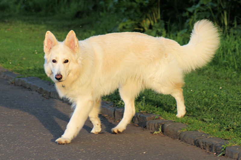 A long-haired white German Shepherd Dog.